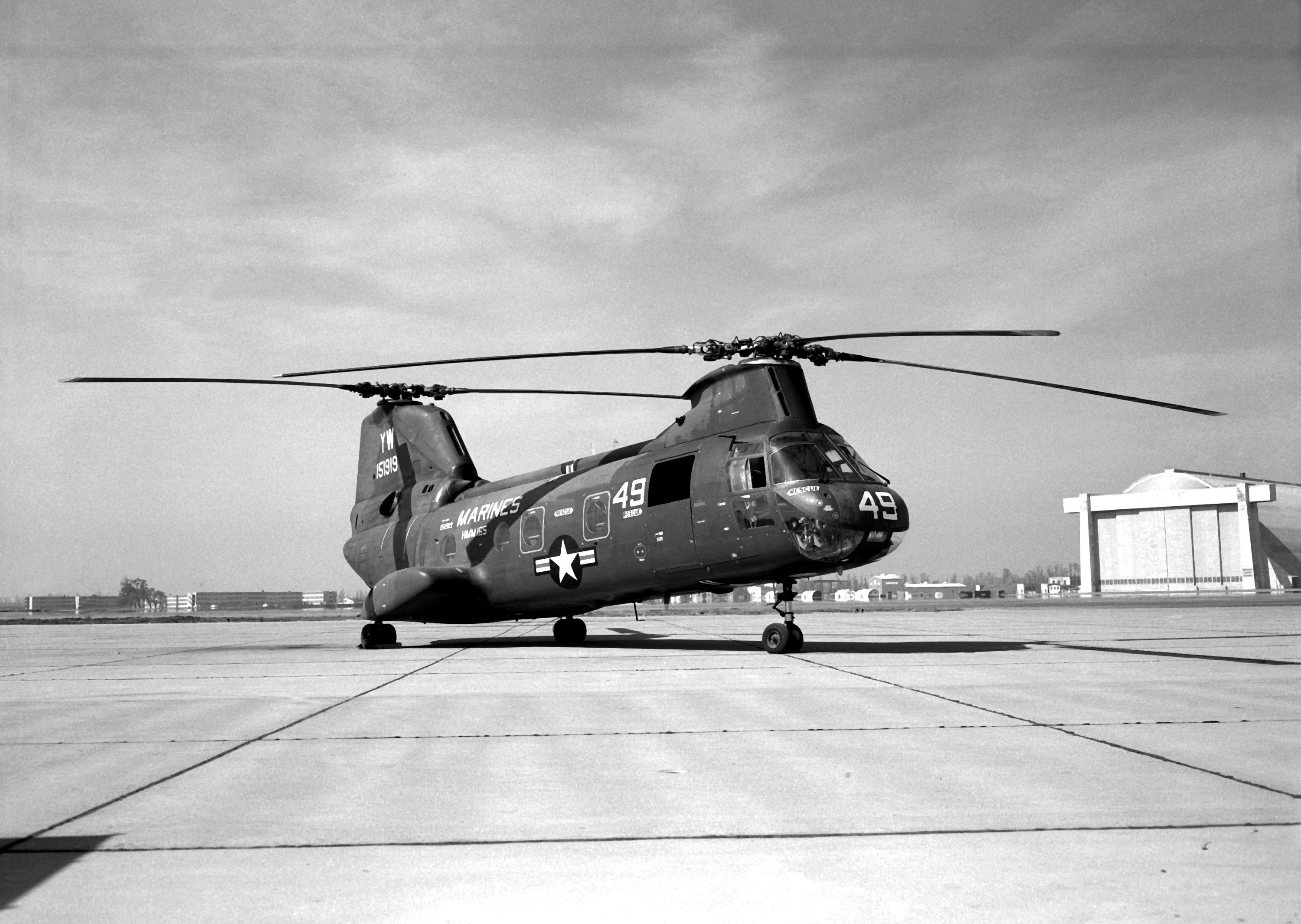 A U.S. Marine Corps Boeing Vertol CH-46A Sea Knight (BuNo 151919) from Marine medium helicopter squadron HMM-165 White Knights at the Marine Corps Air Station Tustin, California (USA), on 18 March 1966. Note the blimp hangar in the background.